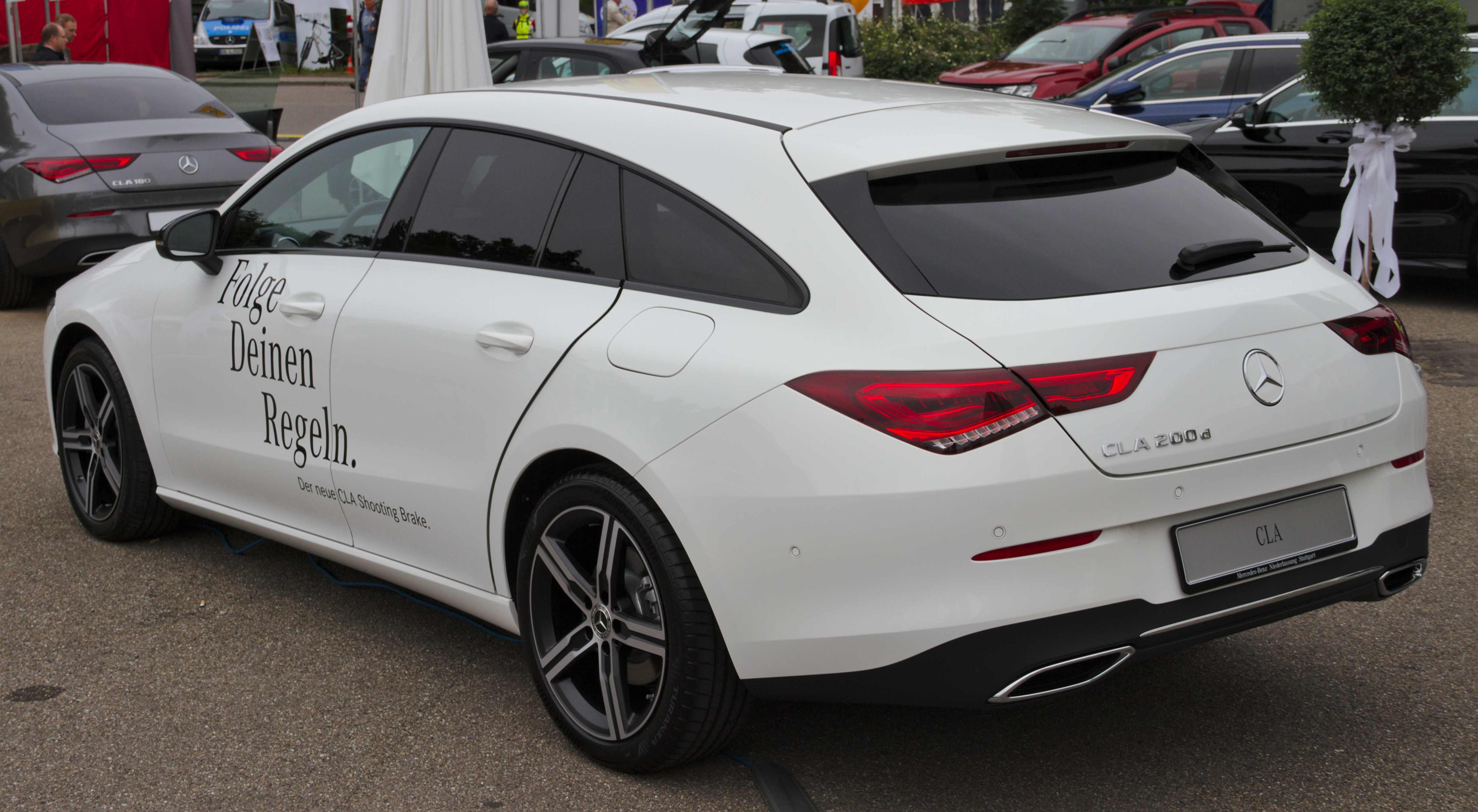 Mercedes-Benz CLA 200d Shooting Break (X118) at Leonberger Autoschau 2019